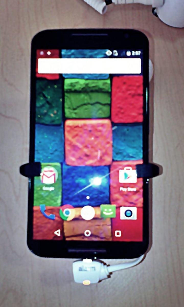 A Motorola Moto X Second Generation launched and on sale in Claro Colombia. With Android 5.0 Lolipop .